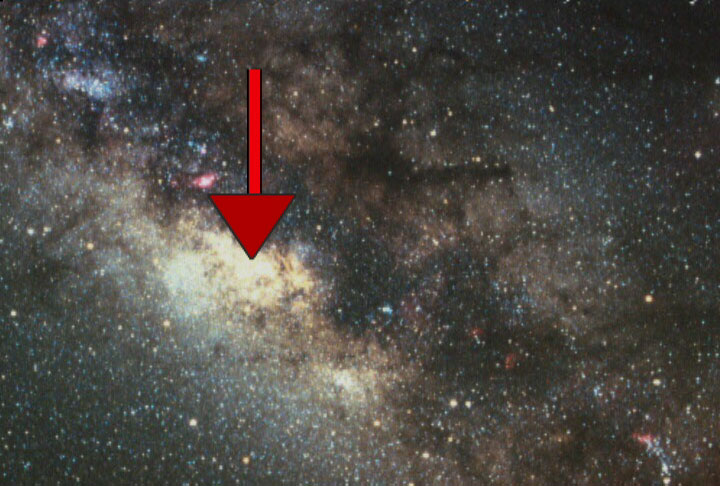 Location of planet discovered near center of the Milky Way